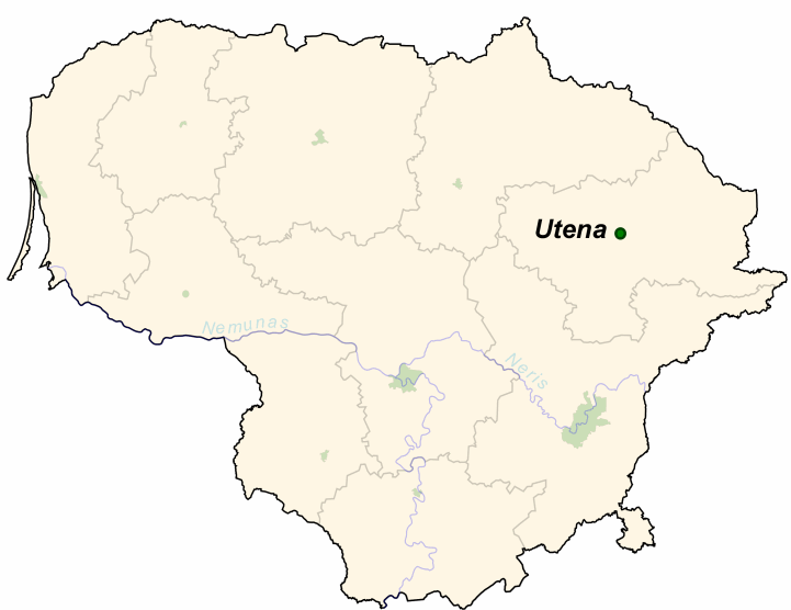 Utena on the map of Lithuania